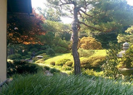 Bright haze looking at the waterfall from the Tea Garden